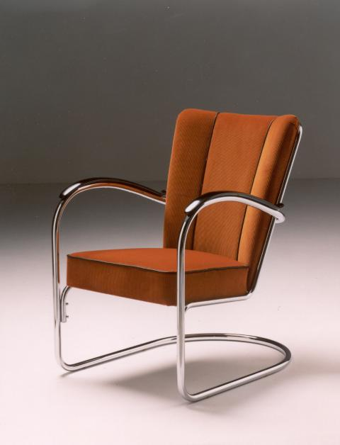 Gispen model 412, bekleed met rode rib stof, geproduceerd van 1934-1966.